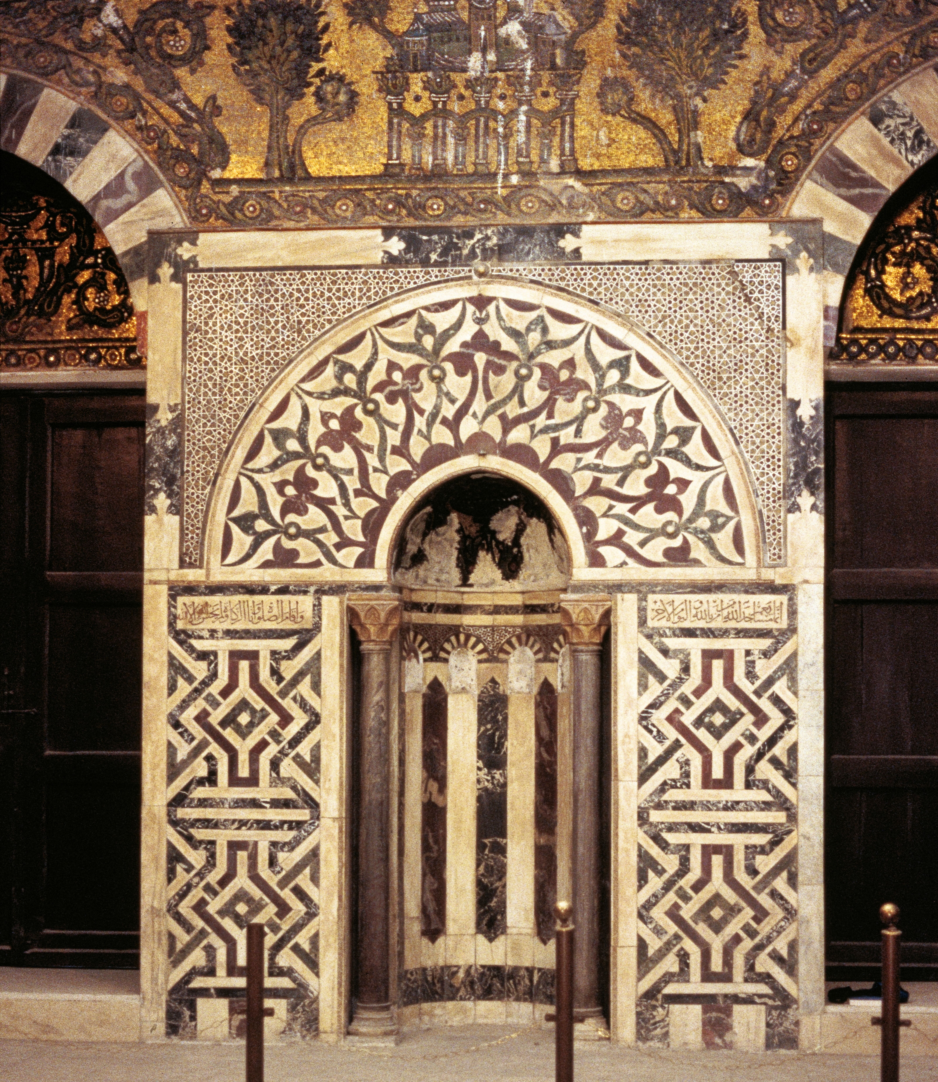 Mihrab of the Mausoleum of Baybars in the Zahiriyya Madrasa, Damascus.